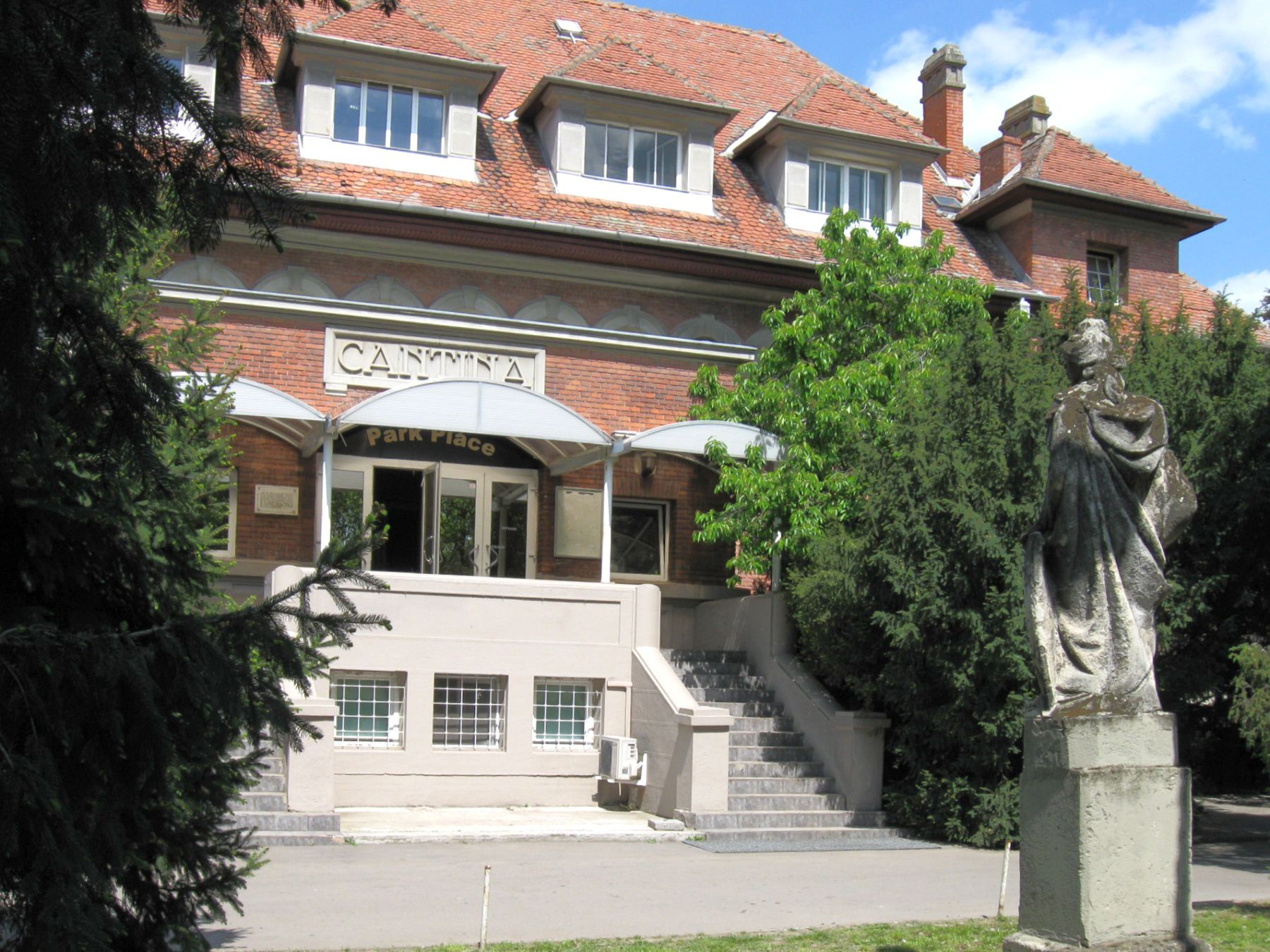 The "MV" canteen in the courtyard of the Faculty of Mechanical Engineering from Timisoara.